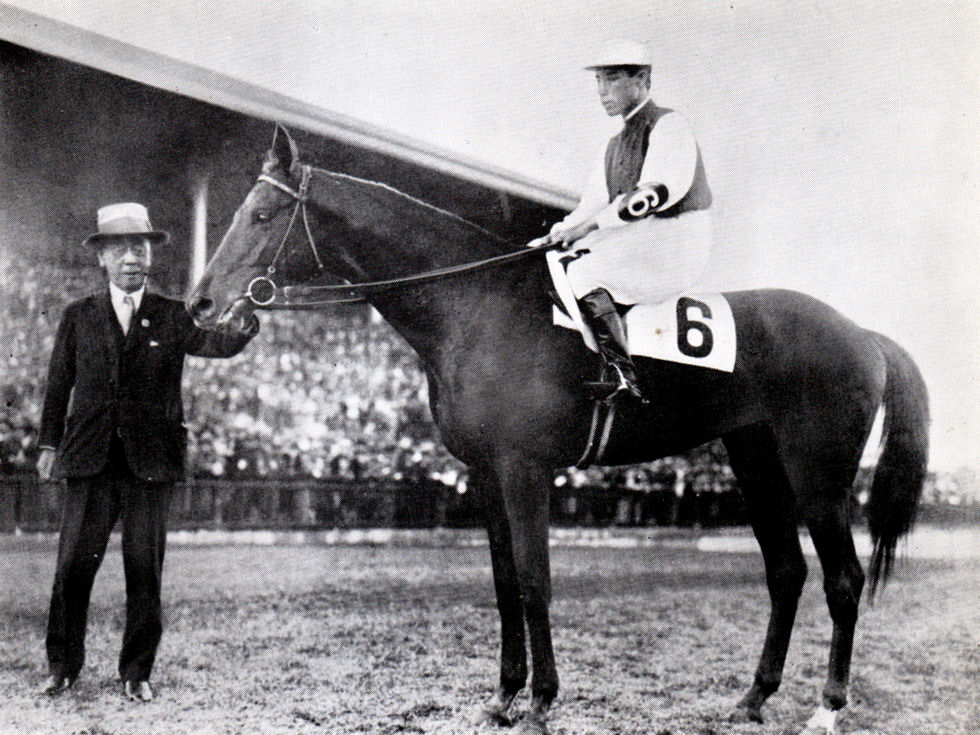 Japanese racehorse ascot and jockey tokichi ogata.